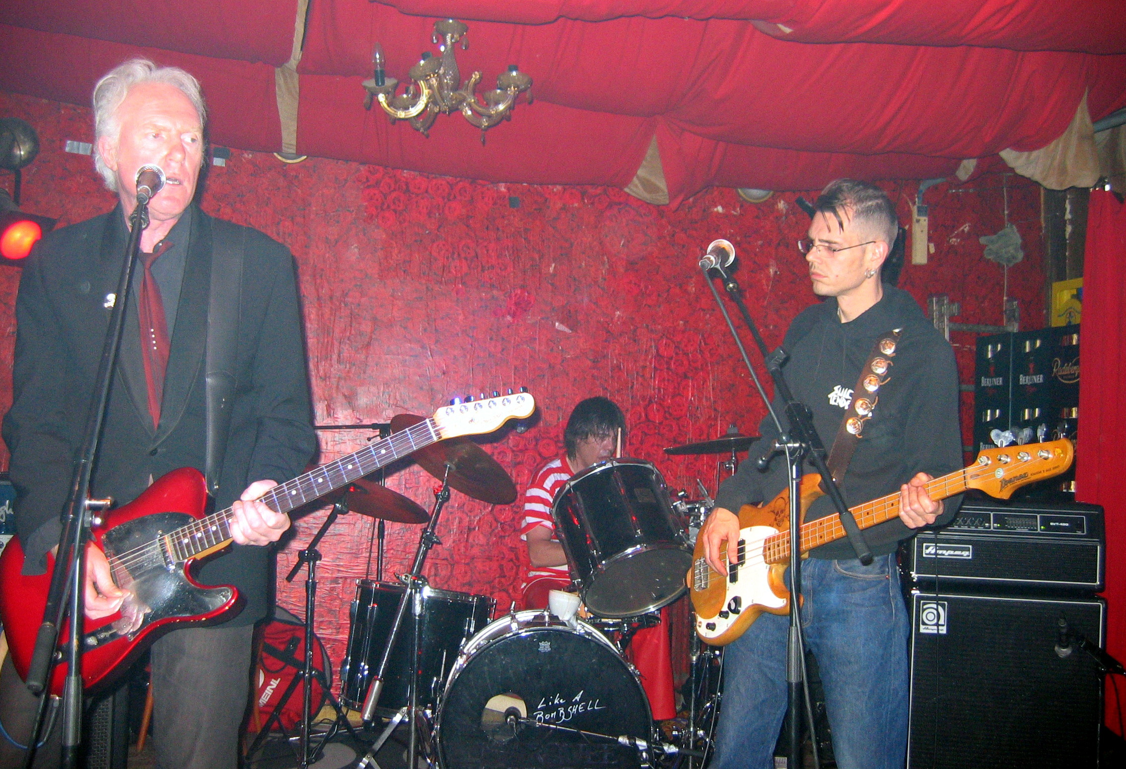 PVC at Schokoladen Berlin (Gerrit Meijer, Tom Petersen and Rob Raw)